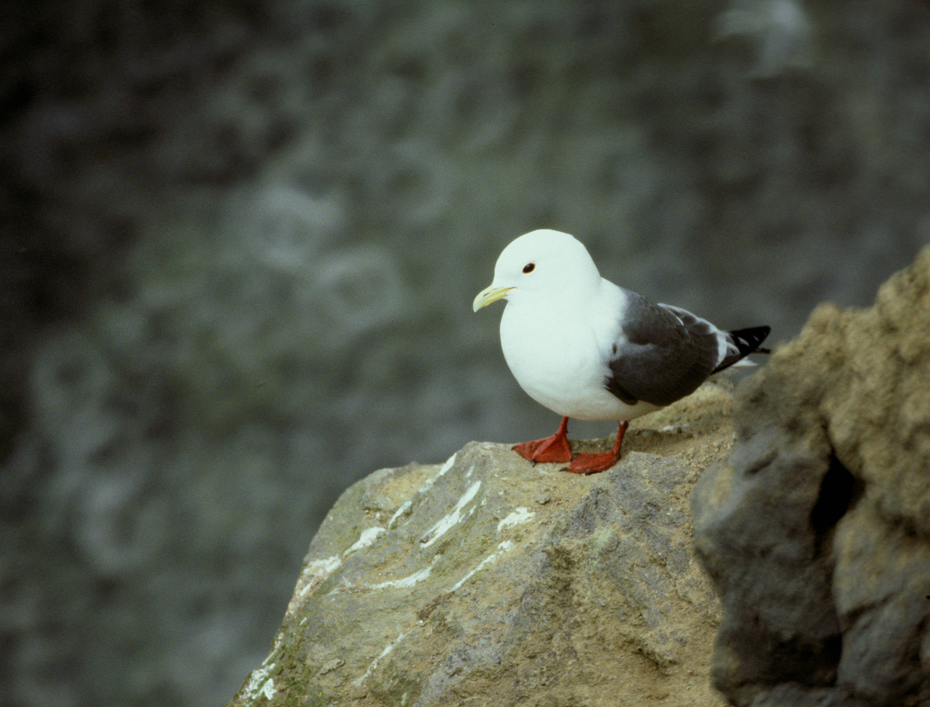 Red-legged Kittiwake (Rissa brevirostris)